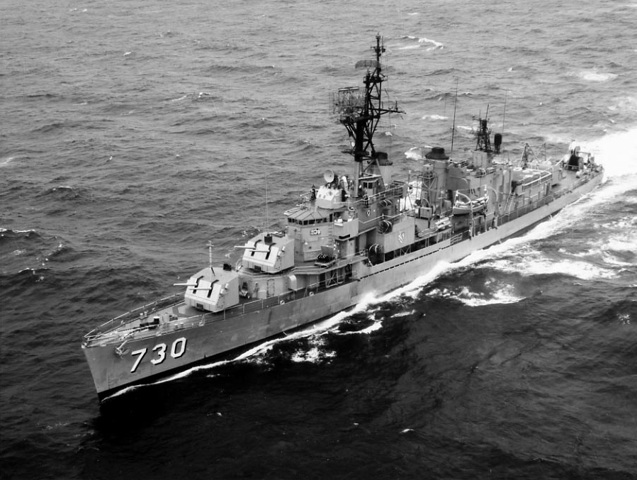 The U.S. Navy destroyer USS Collett (DD-730) at sea near Kanni-Zaki Point (?), Japan on 17 July 1966.